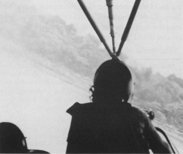 The western zone on Koh Tang as seen from the ramp of an HH-53